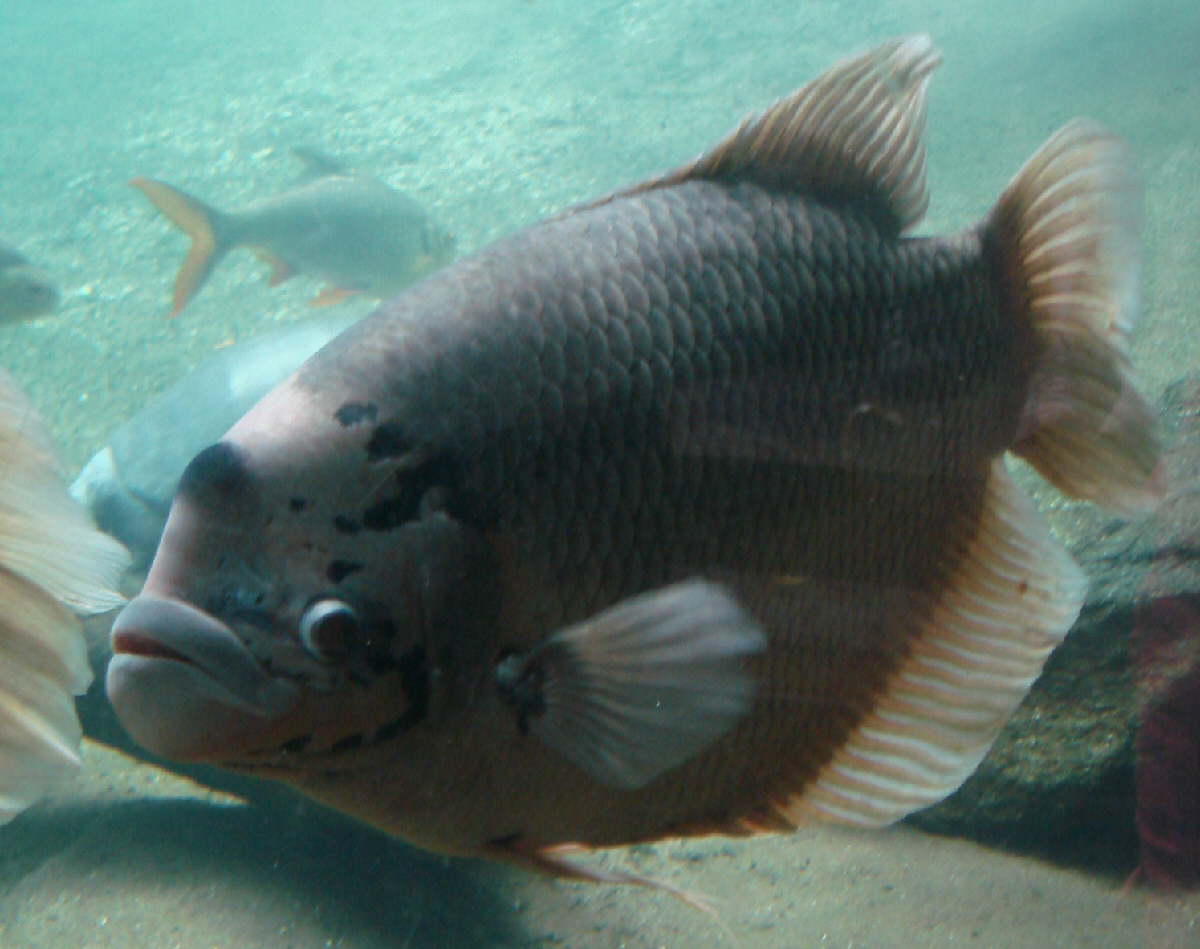 Giant gourami, Bronx Zoo